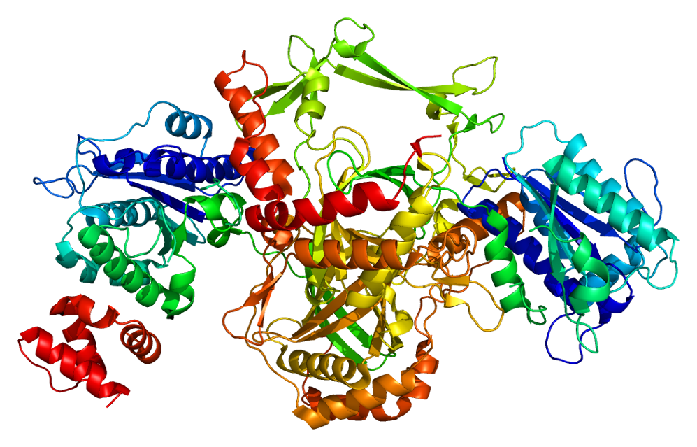 Structure of the XRCC6 protein. Based on PyMOL rendering of PDB 1jeq.